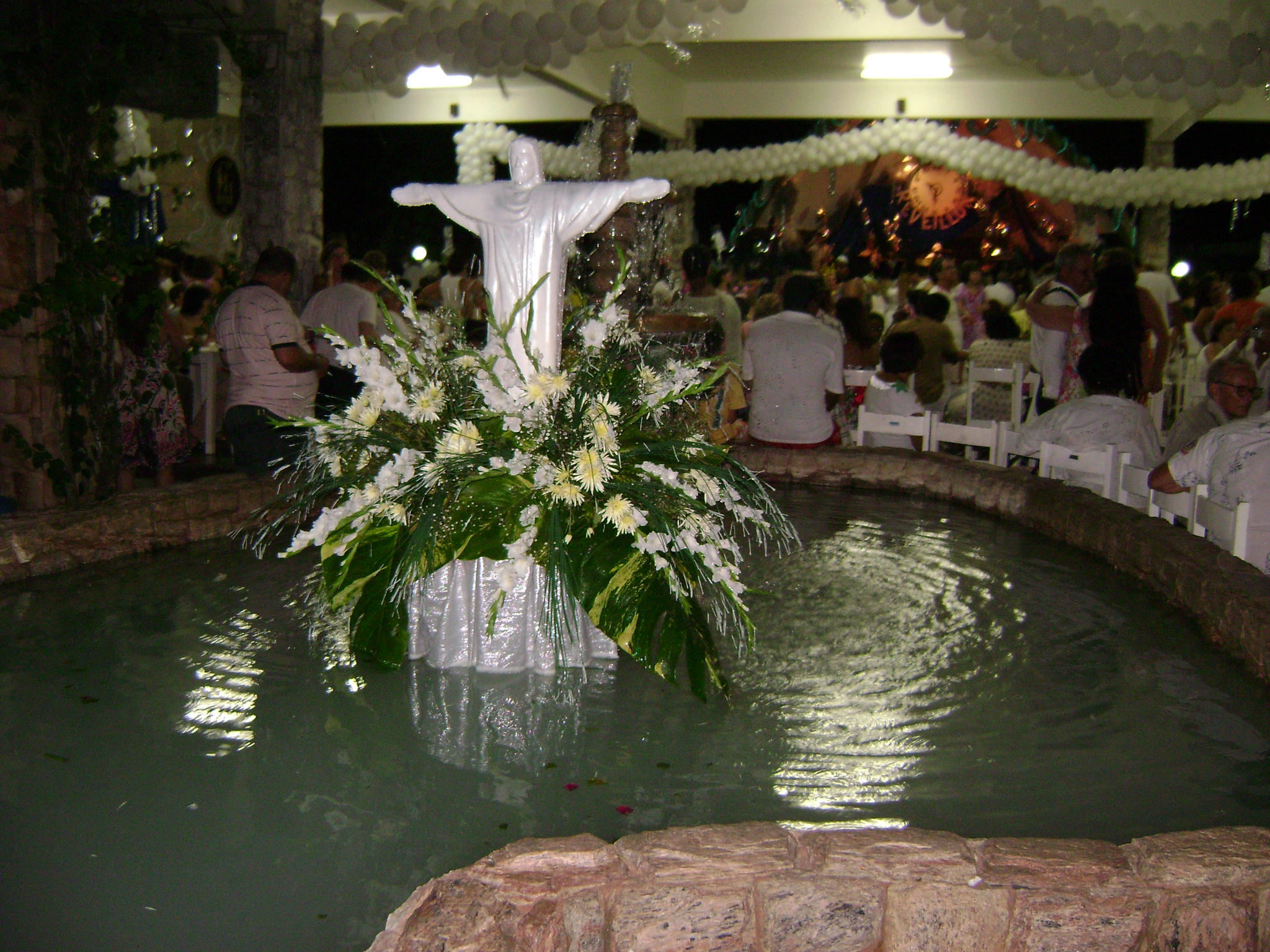 Miniatura do Cristo Redentor, em Grussaí (São João da Barra), Rio de Janeiro.